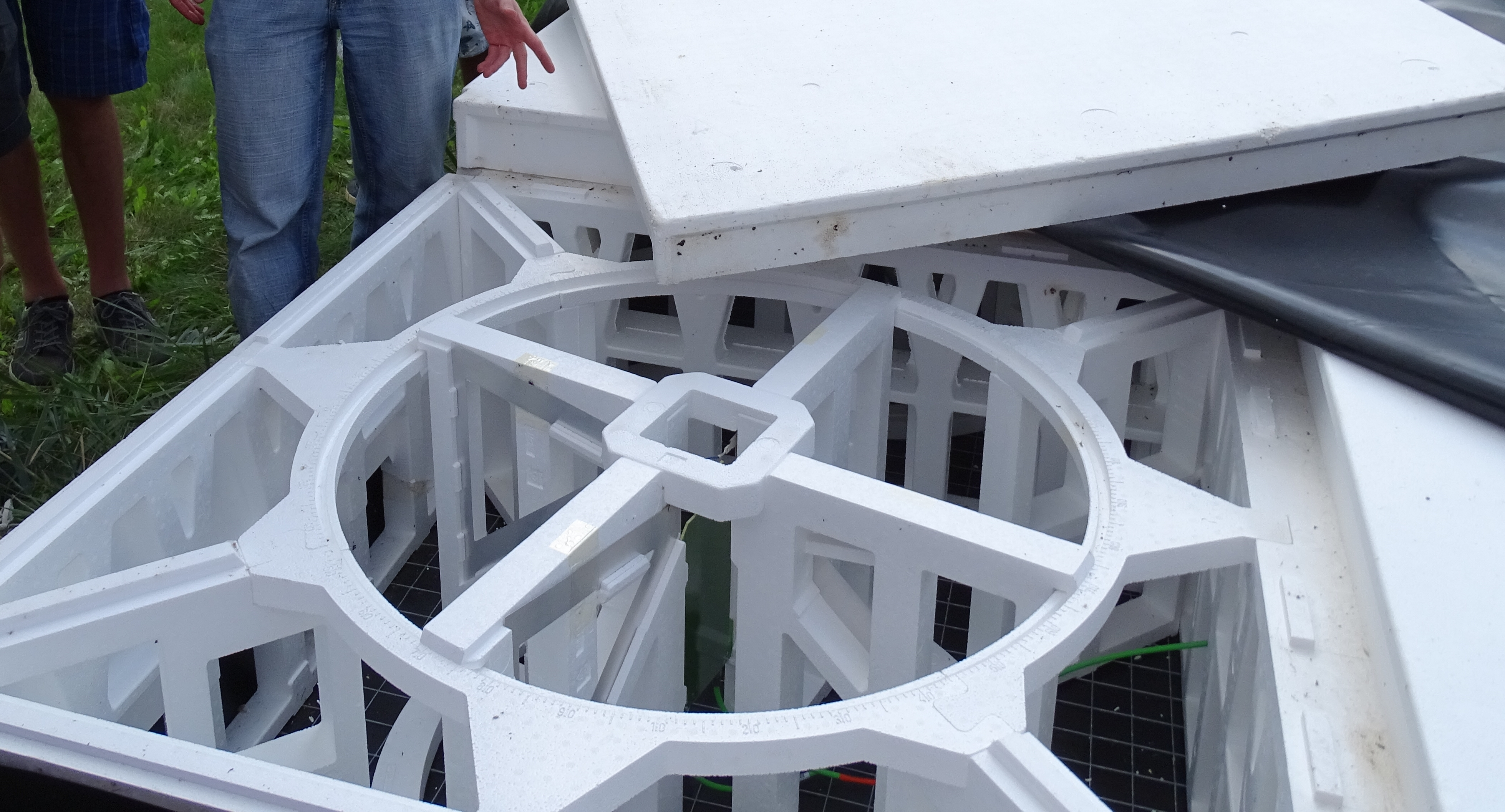 LOFAR high band antenna